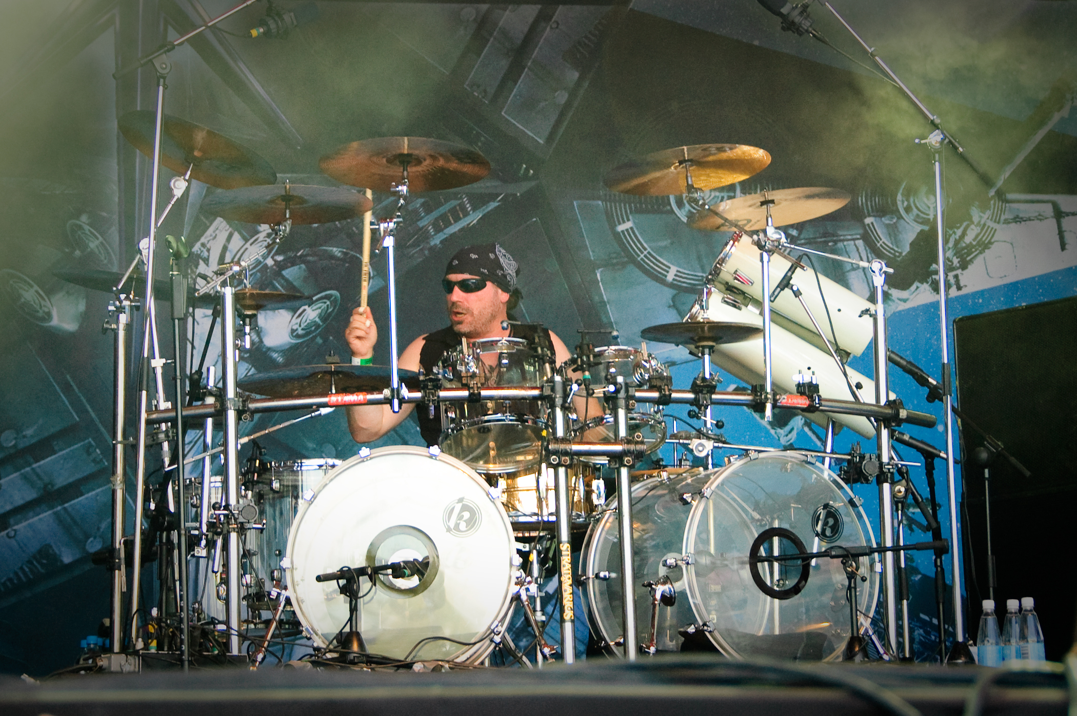 Drummer Jörg Michael of Stratovarius performing at the Ilosaarirock 2009 festival in Joensuu, Finland.